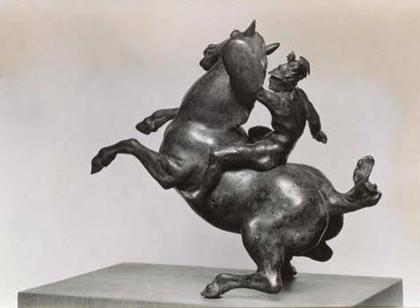 Black and white photo of the Rearing Horse and Mounted Warrior statuette by Leonardo da Vinci, taken during its stay in Munich at the end of World War II